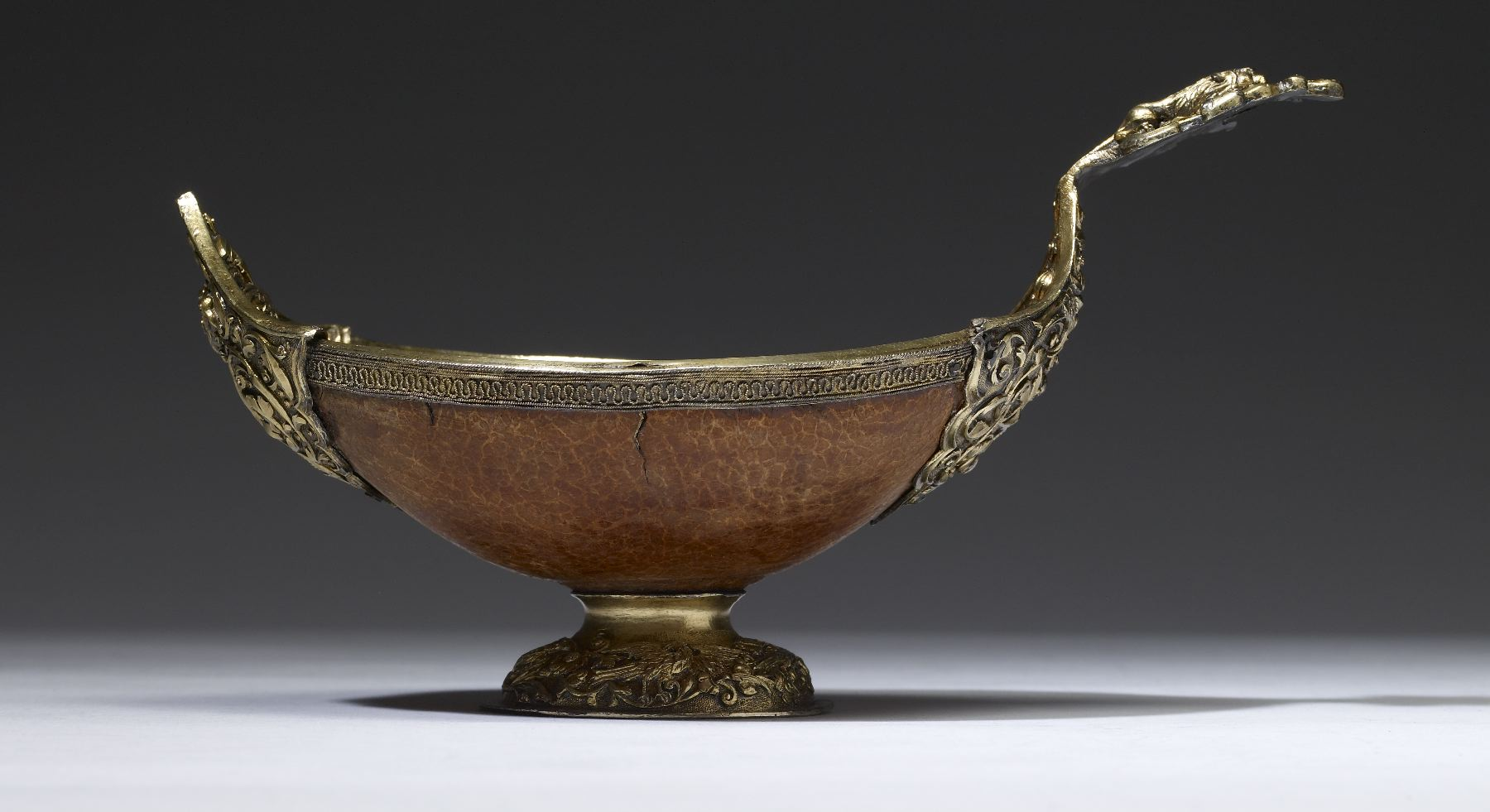 Such large cups, known in Russian as a korchik, were used for drinking wine and mead in wealthy households. Unusually, this one belonged to a woman.